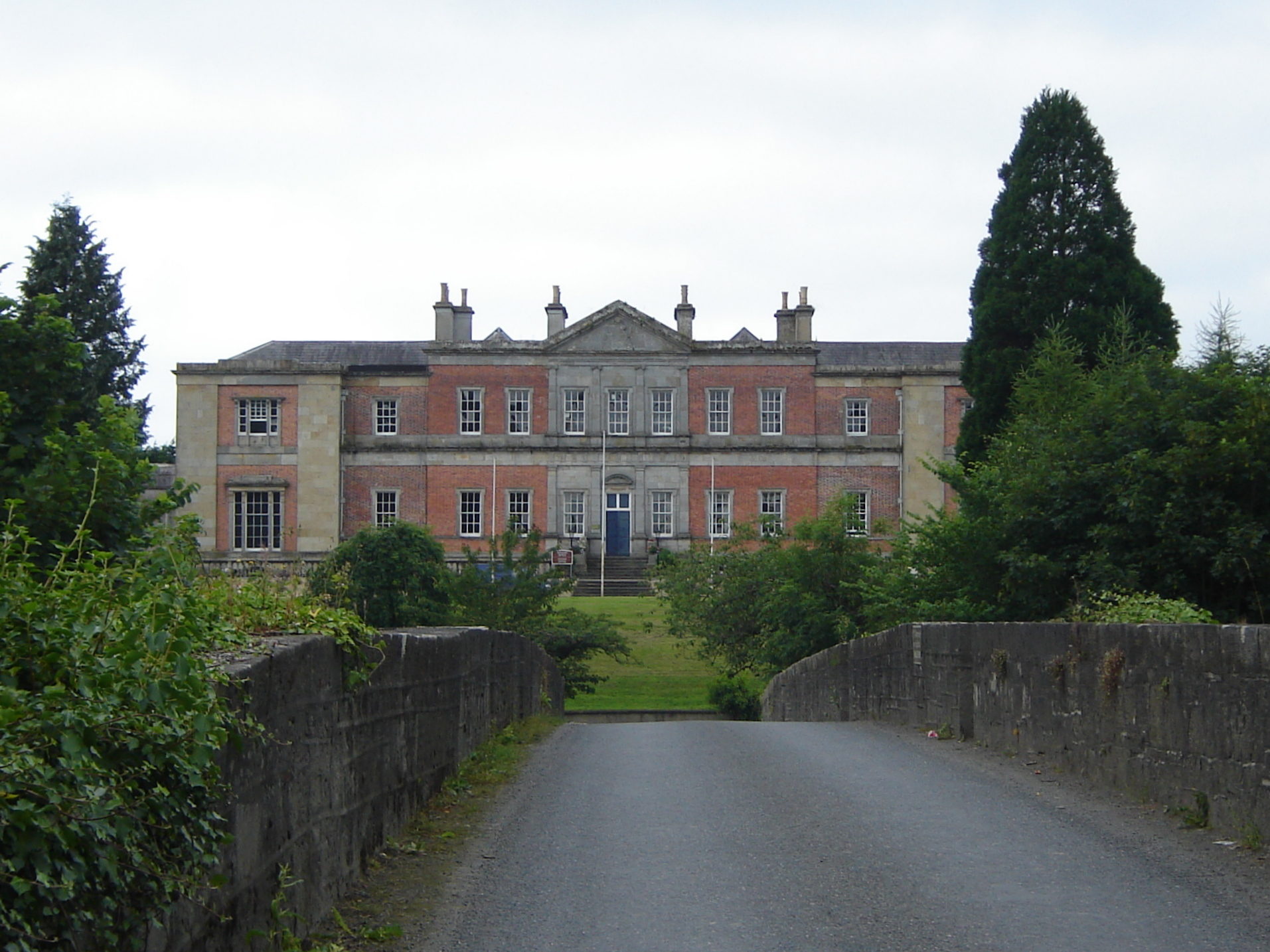 Agricultural college Ballyhaise, Co. Cavan, Ireland. Designed by Richard Kassels.